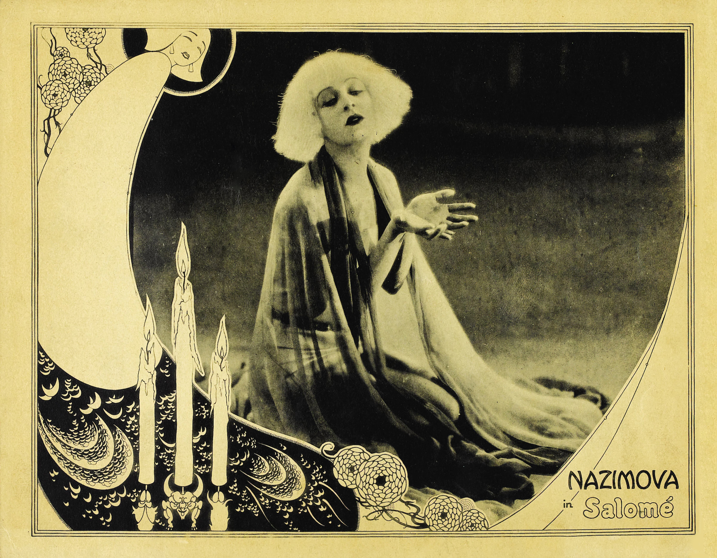 Alla Nazimova in Salome. Lobby card for the film, 1922. This production was based on the Aubrey Beardsley drawings. (Billy Rose Theatre Collection, The New York Public Library for the Performing Arts, Astor, Lenox and Tilden Foundations).